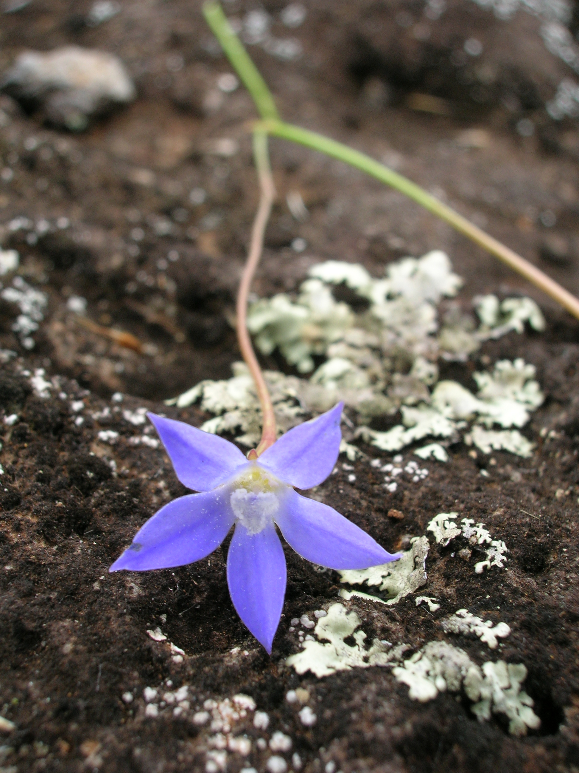 Wahlenbergia gracilis (flower). Location: Maui, Pohakuokala Gulch